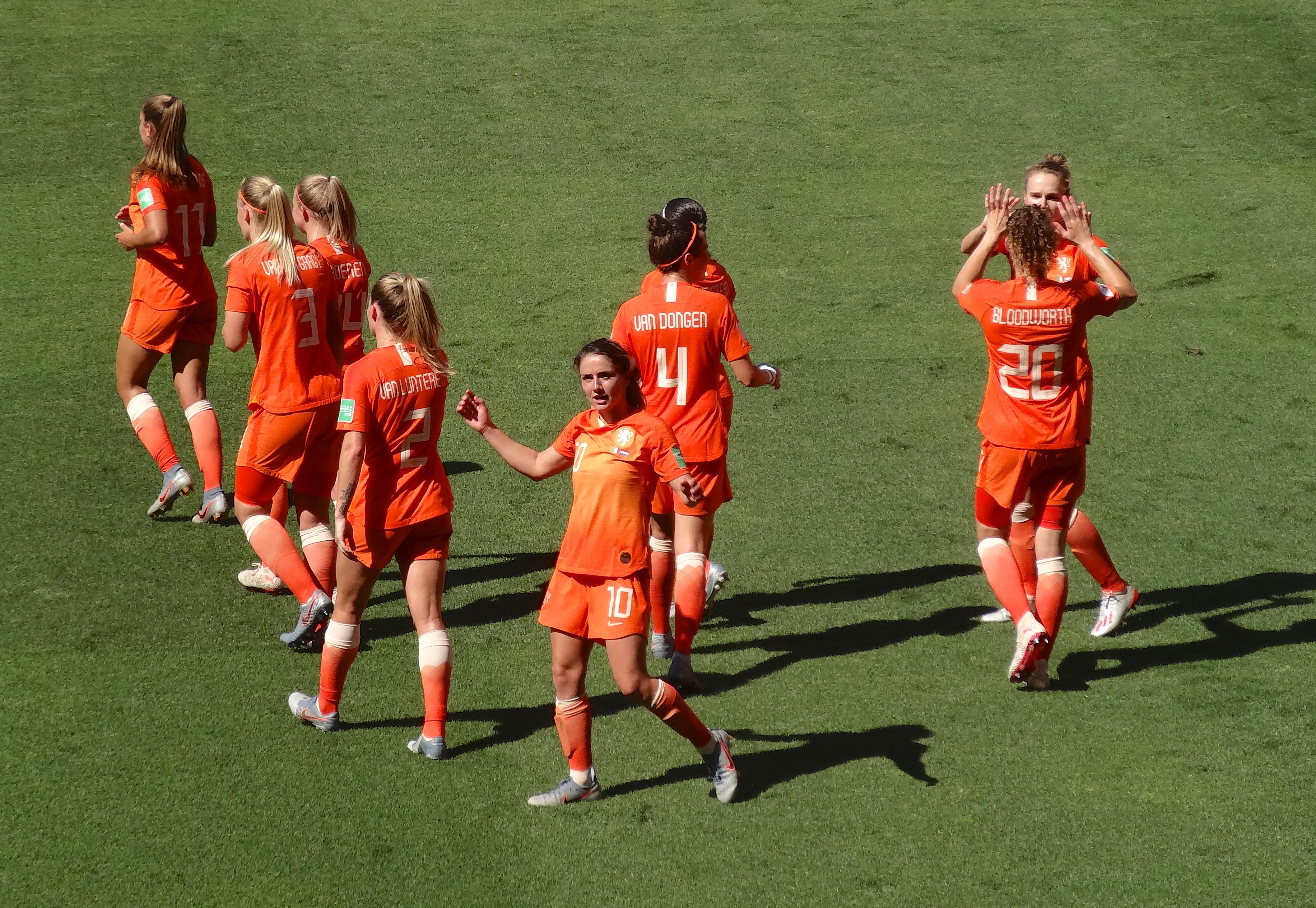 Holland Team (Women World Cup France 2019)